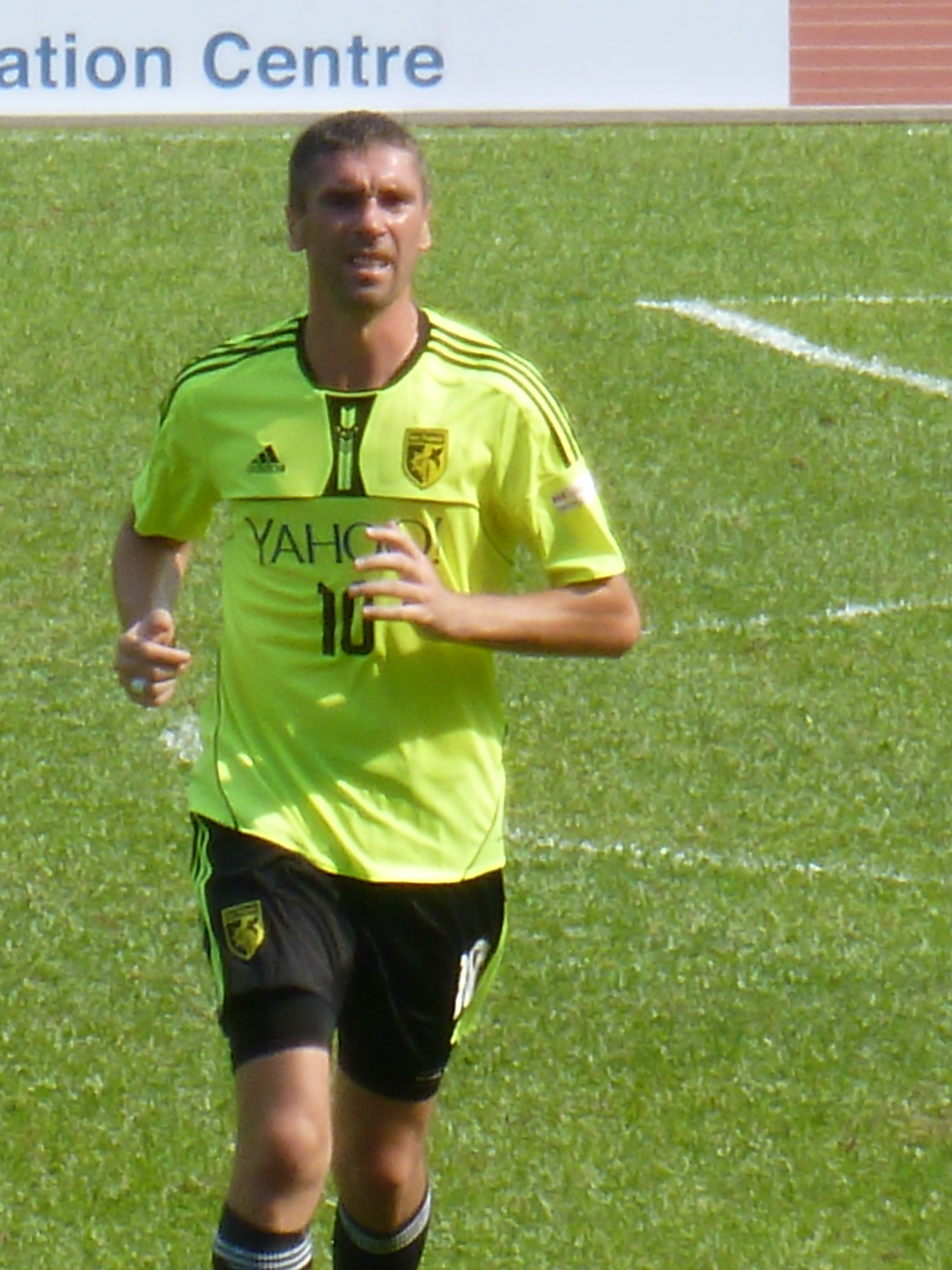 Dario Damjanović (5 Oct 2014, Hong Kong Premier League, YFCMD vs Pegasus, Sham Shui Po Sports Ground) 中文（香港）: 丹贊奴域 (5 Oct 2014, 香港超級足球聯賽, YFC澳滌 vs 飛馬, 深水埗運動場)